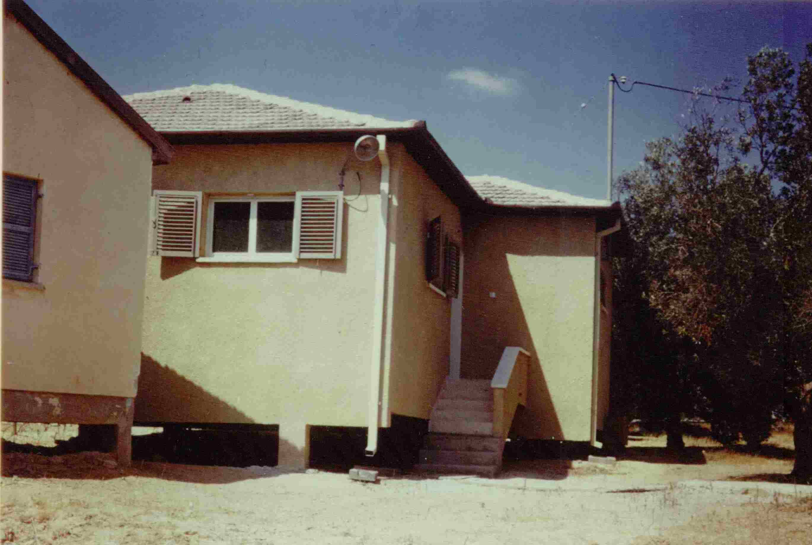 Geography of Israel